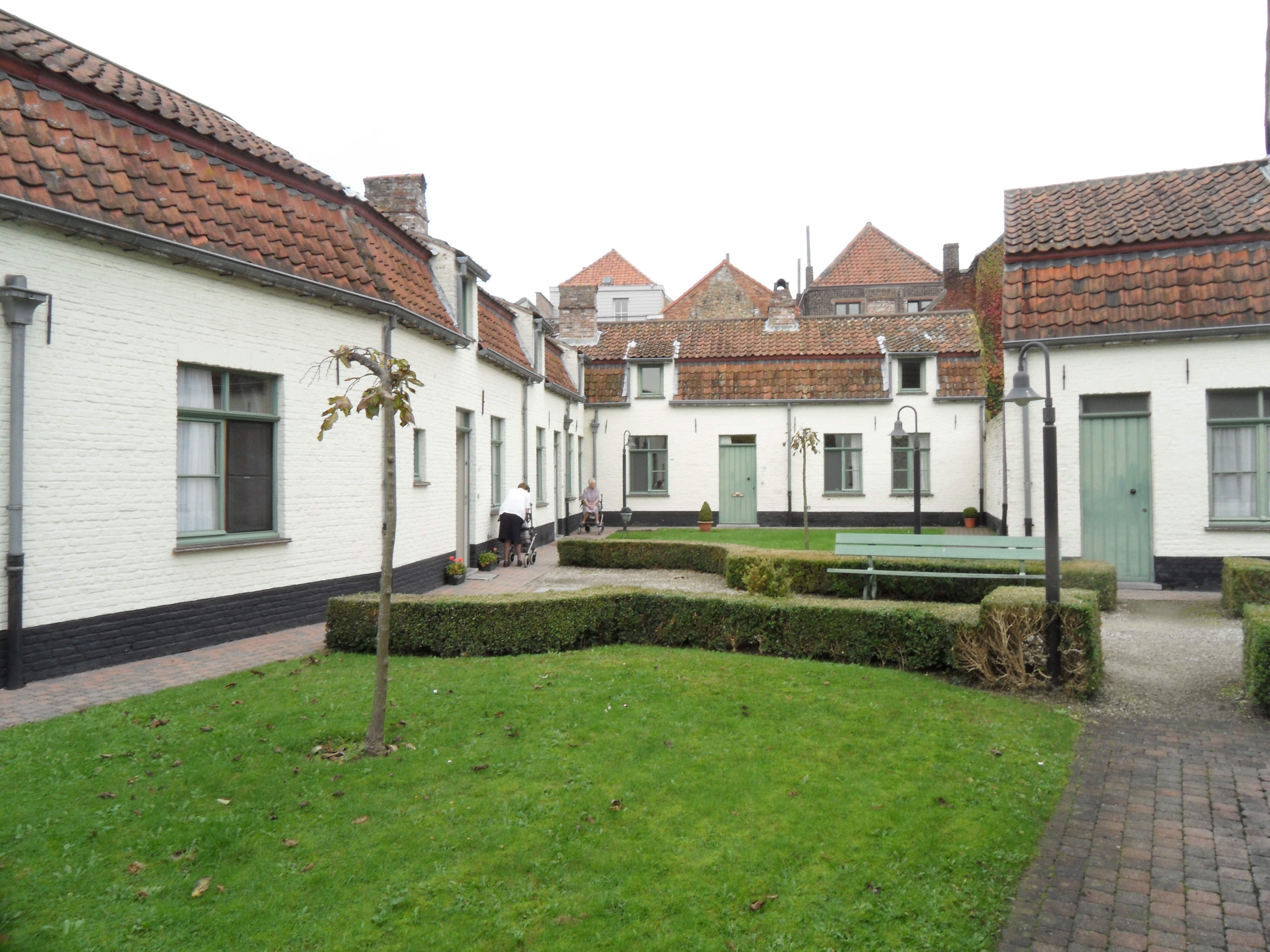 Kattepoort